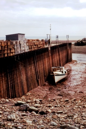 The bay of Fundy at low tide, 1972. As I recall, this was in New Brunswick, not far from the Fundy National Park.